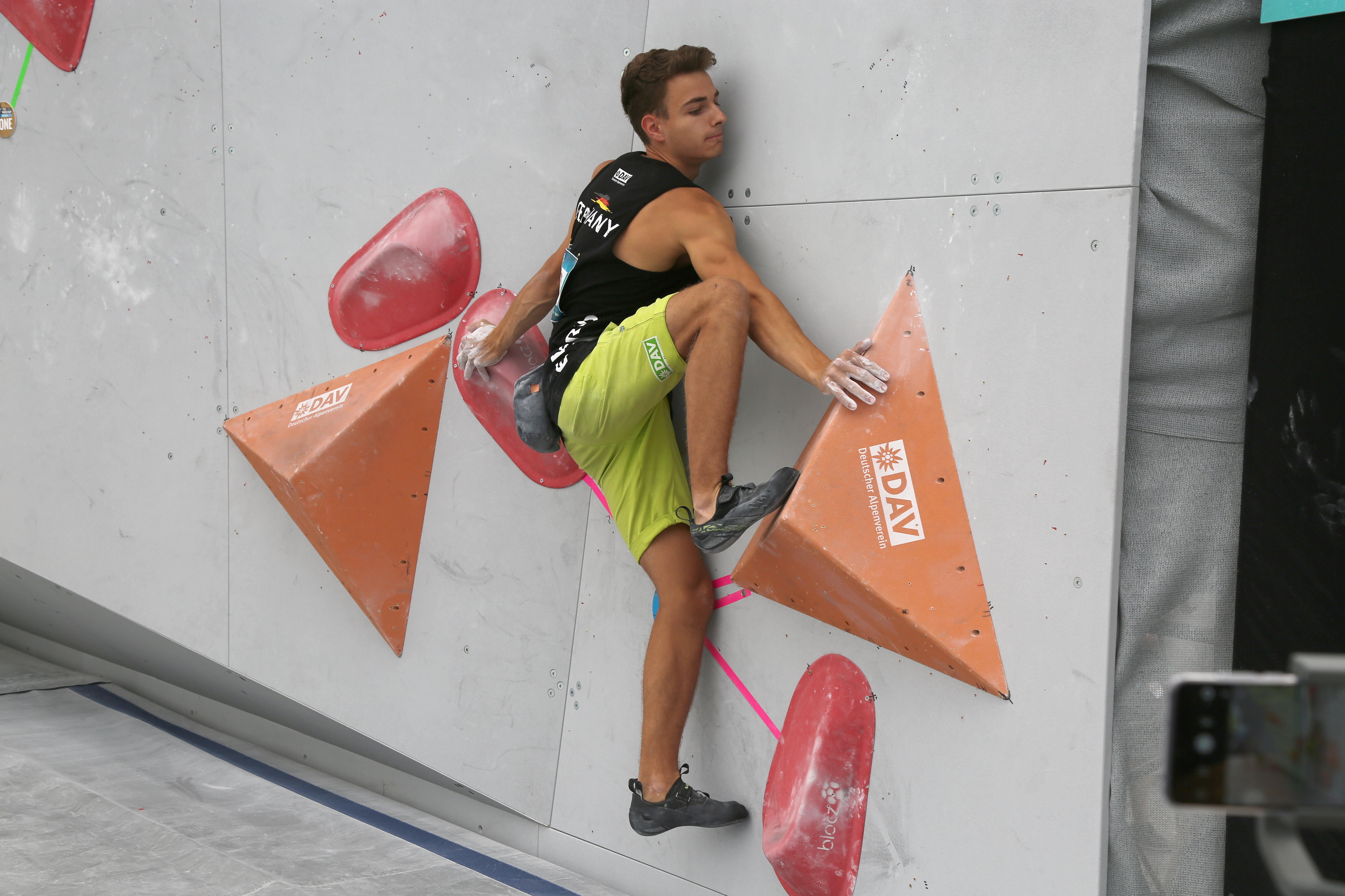 Boulder Worldcup 2018, Final Event in Munich 2018-08-18, Semi-Finals.